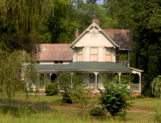 The James Martin House in Walland, Tennessee, located in the Southeastern United States. The Martin family owned one of the first mills in Miller Cove, and played a prominent role in the cove's industrial development. James Martin's house was placed on the National Register of Historic Places in 1989.